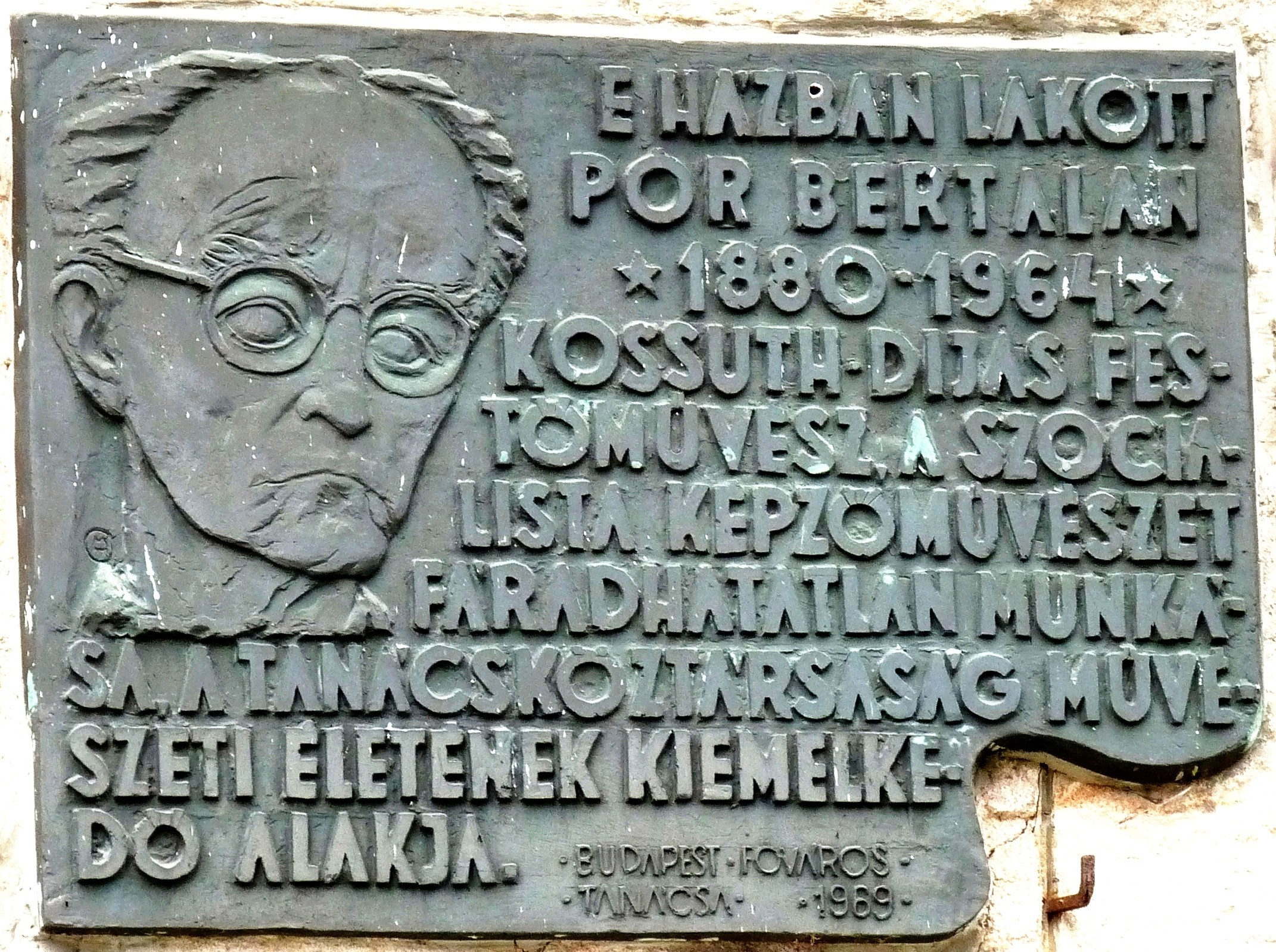 Commemorative plaque to Mr. Bertalan Pór (1880-1964) Hungarian painter and professor. It is affixed on the wall of his former house in Pasarét. The author of the bronz relief is Mr. Mihály Mészáros. (Budapest, District II, Pasaréti Street Nr 77).